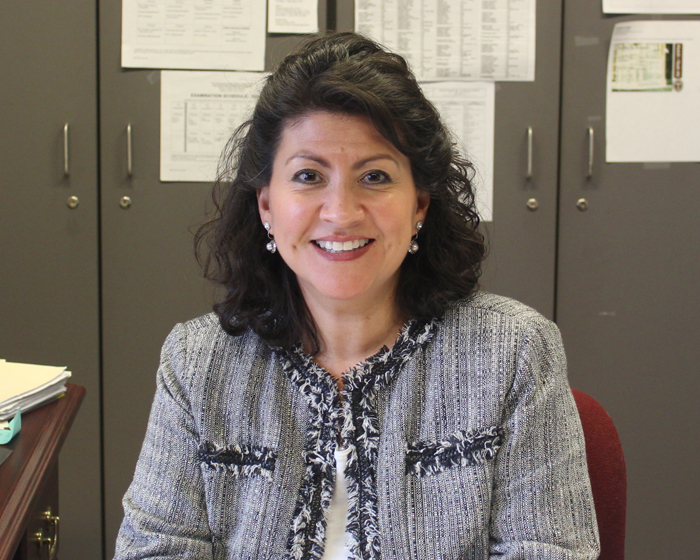 Dr. Gabrielle Morquecho